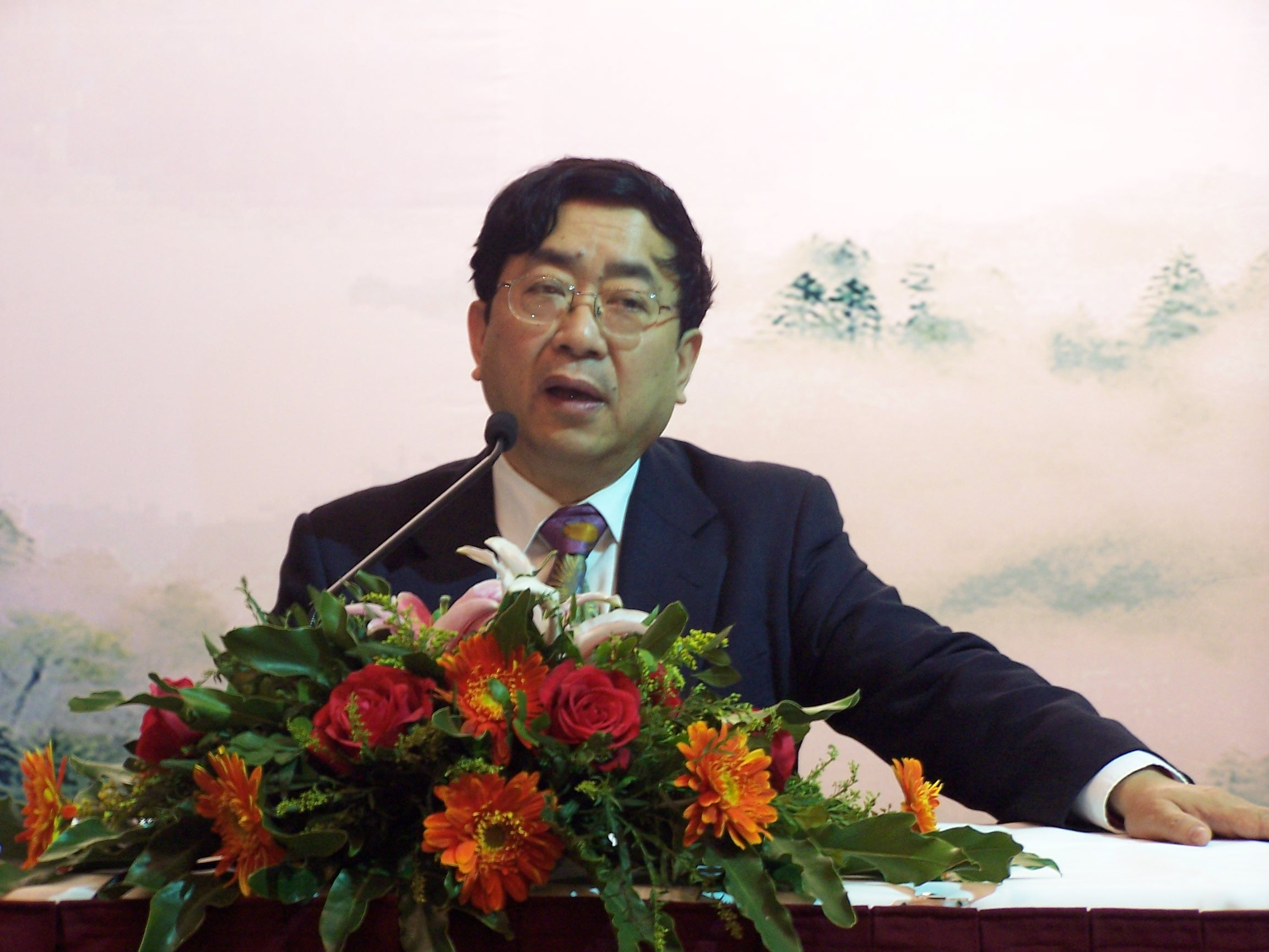 Yu Qiuyu, a famous Chinese author. 余秋雨，中国知名作家。